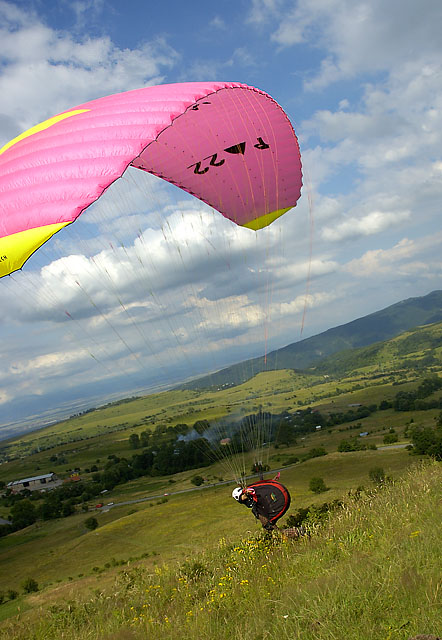 Paragliding - Learning to fly: One flew from the training hill at Bistrica, Sofia district, Bulgaria. Assen Baramov, Paraglider: Paratech P22